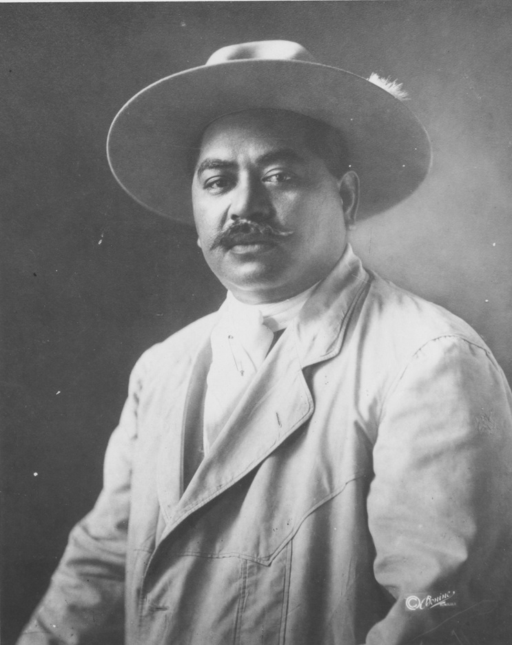 Jonah Kūhiō Kalanianaʻole (1871-1922) as a delegate to Congress wearing a campaign hat.